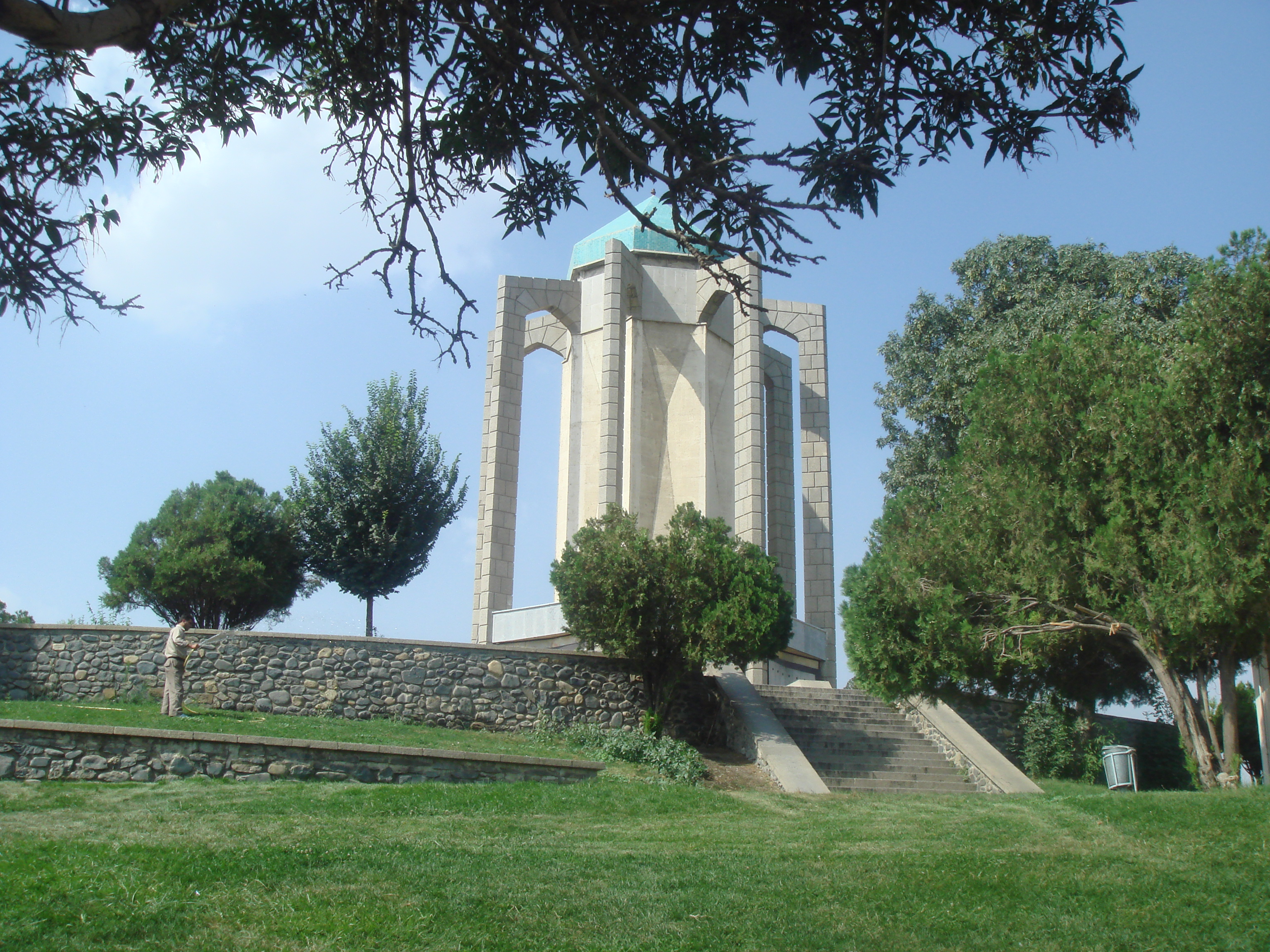 Baba Taher Hamedan